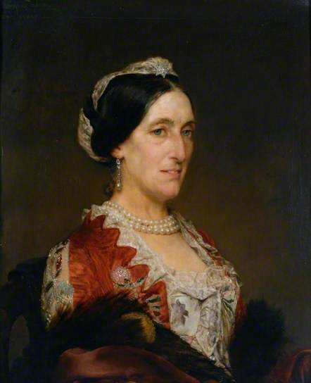 Catherine Lucy Wilhelmina Stanhope (1819-1901), (the Duchess of Cleveland), a historian, daughter of Philip Henry Stanhope, 4th Earl Stanhope (1781-1855), mother of Archibald Primrose, 5th Earl of Rosebery, Prime Minister of the United Kingdom and wife successively to Archibald Primrose, Lord Dalmeny and secondly to Harry Powlett, 4th Duke of Cleveland (1803–1891).